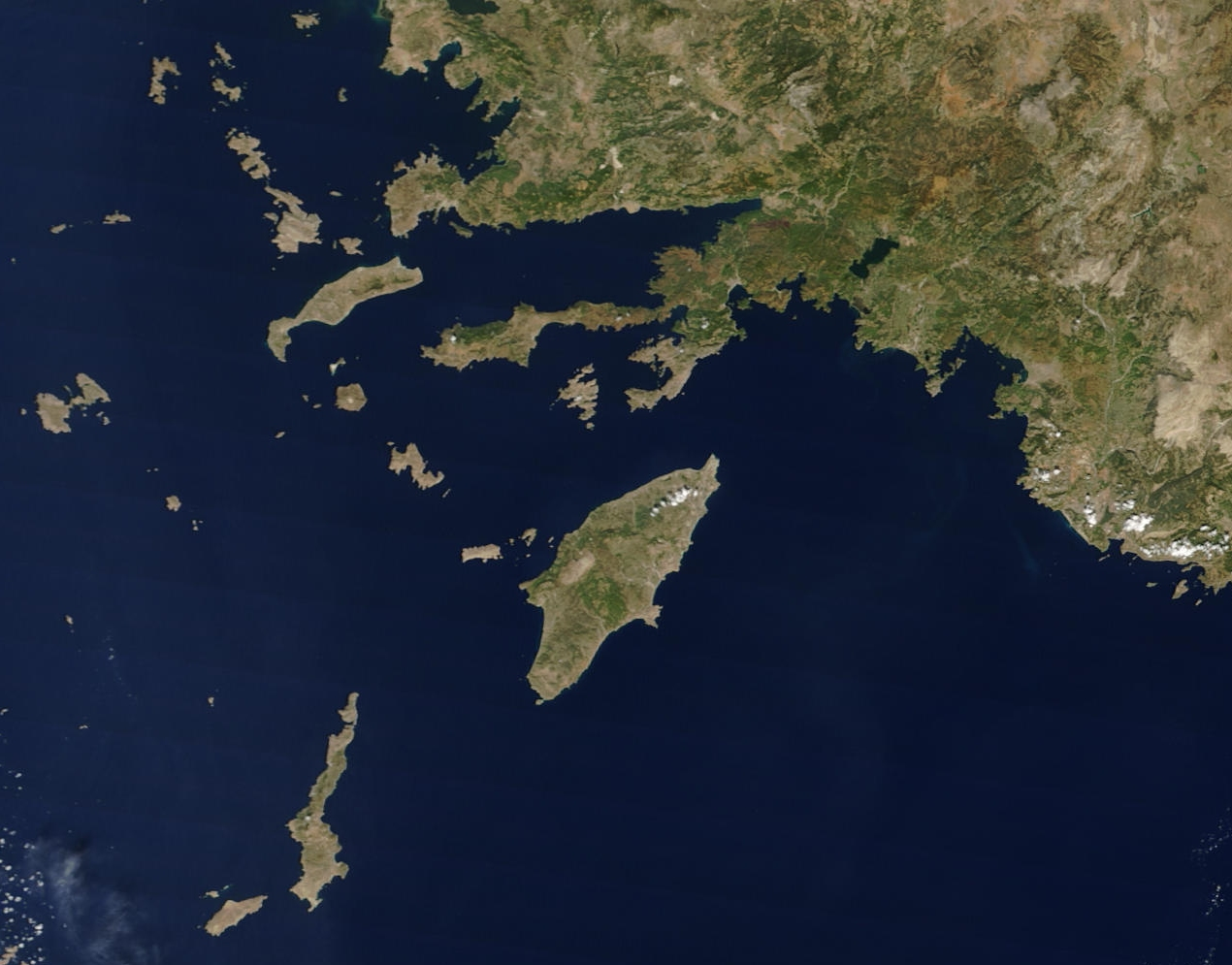 A cropped view of the original showing the Dodecanese group of Greek islands and the coast of Turkey. Further information and the original downloads can be found at